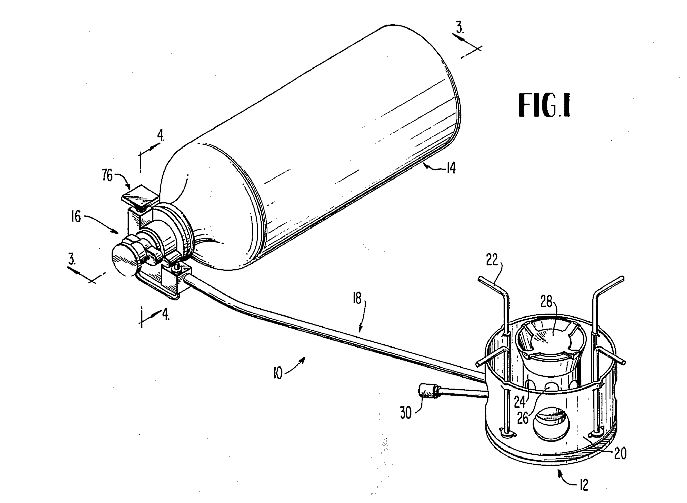 Patent drawing of MSR Model 9 (XGK) stove - Patent No. 3900281